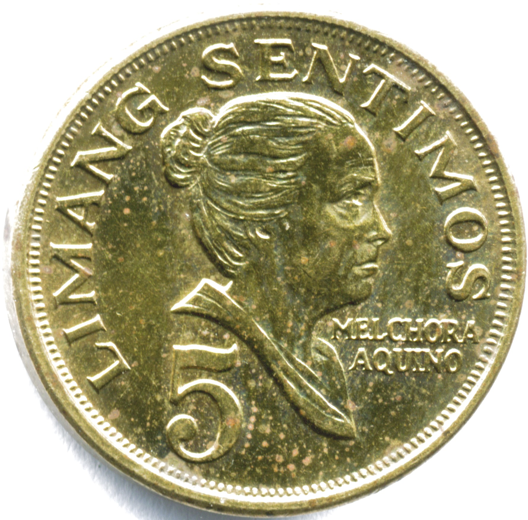 Philippine five sentimo coin 1970 obverse